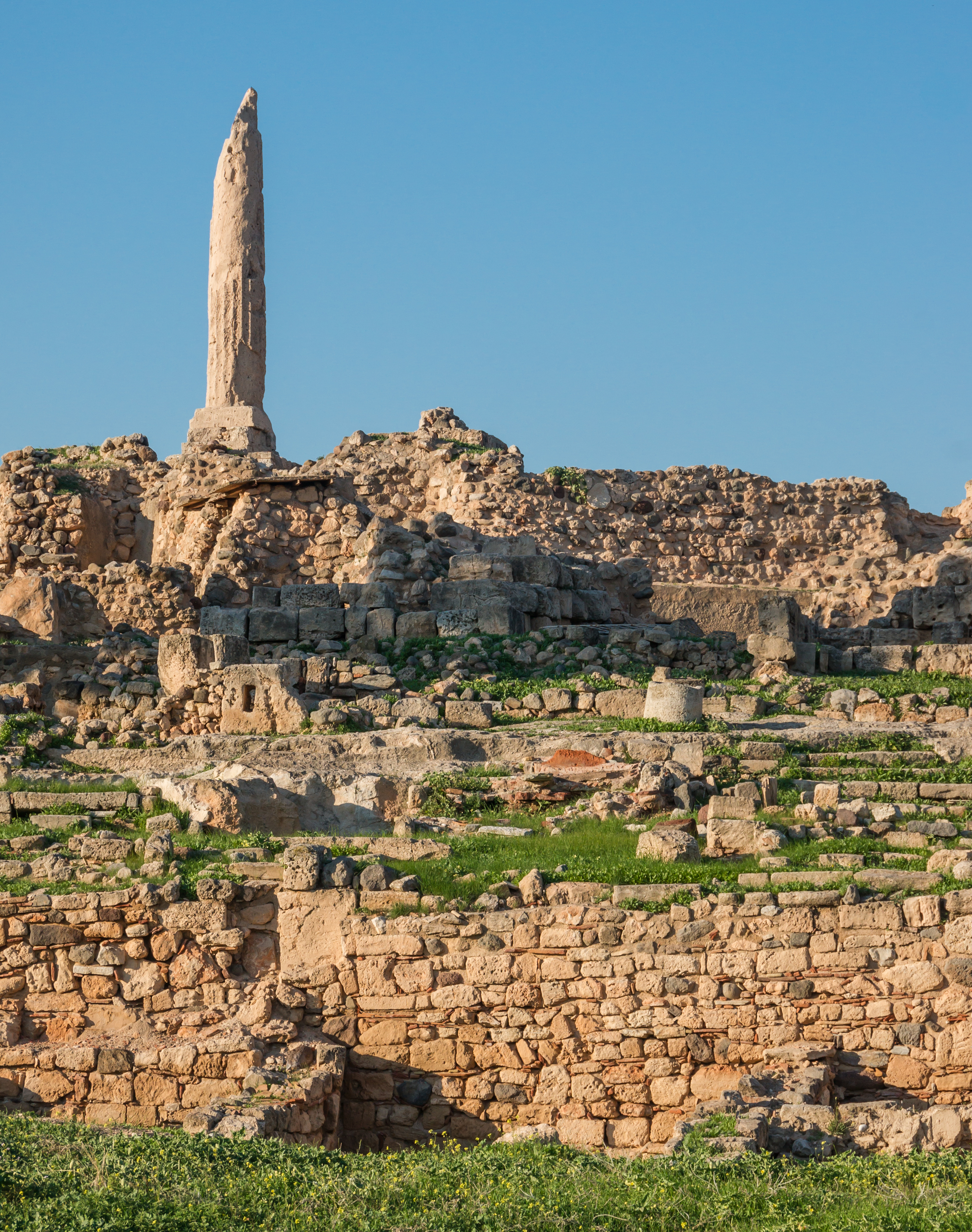 Temple of Apollo in Ægina, Greece.